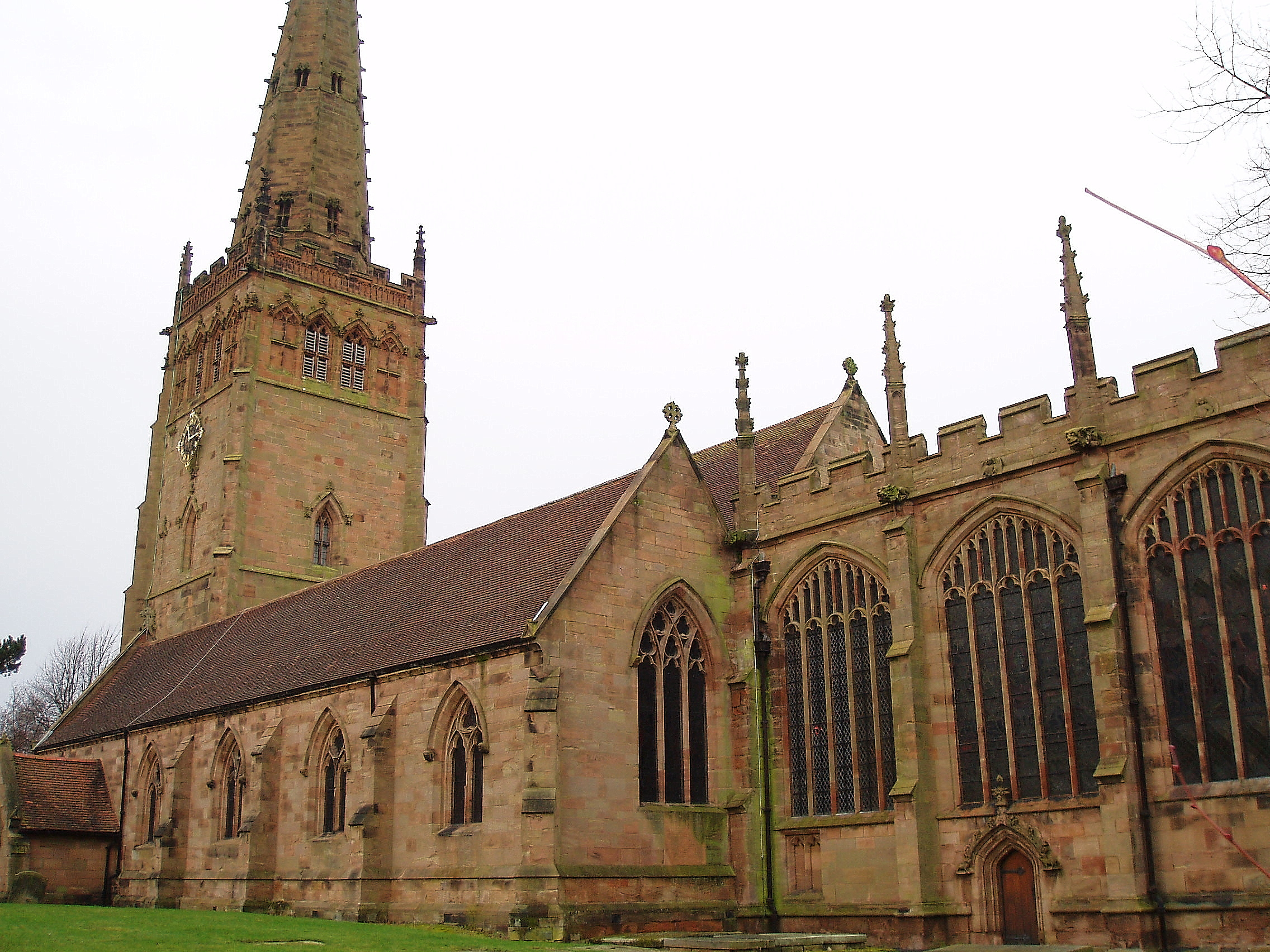 Coleshill's crocketed spire is a dominant feature of the North Warwickshire landscape. A familar landmark seen from the Motorway network, it's a handy reminder not to forget to take the next exit! The church is enormous, telling of the one time importance of the town. The parish church of ST. PETER AND ST. PAUL consists of a chancel, with a north vestry, nave, north and south aisles and porches, and a west tower with a spire. The building was very drastically restored in 1868–9 and much of the evidence of its historical development was lost. The earliest surviving parts of the structure are the four eastern bays of the seven-bay arcades; these date from c. 1340, indicating an original nave of about 54 ft. in length to which the aisles were added. The nave was lengthened subsequently about 32 ft. and the west tower was added From: 'Parishes: Coleshill', A History of the County of Warwick: Volume 4: Hemlingford Hundred (1947), pp. 47-57. URL: Date accessed: 11 January 2009.